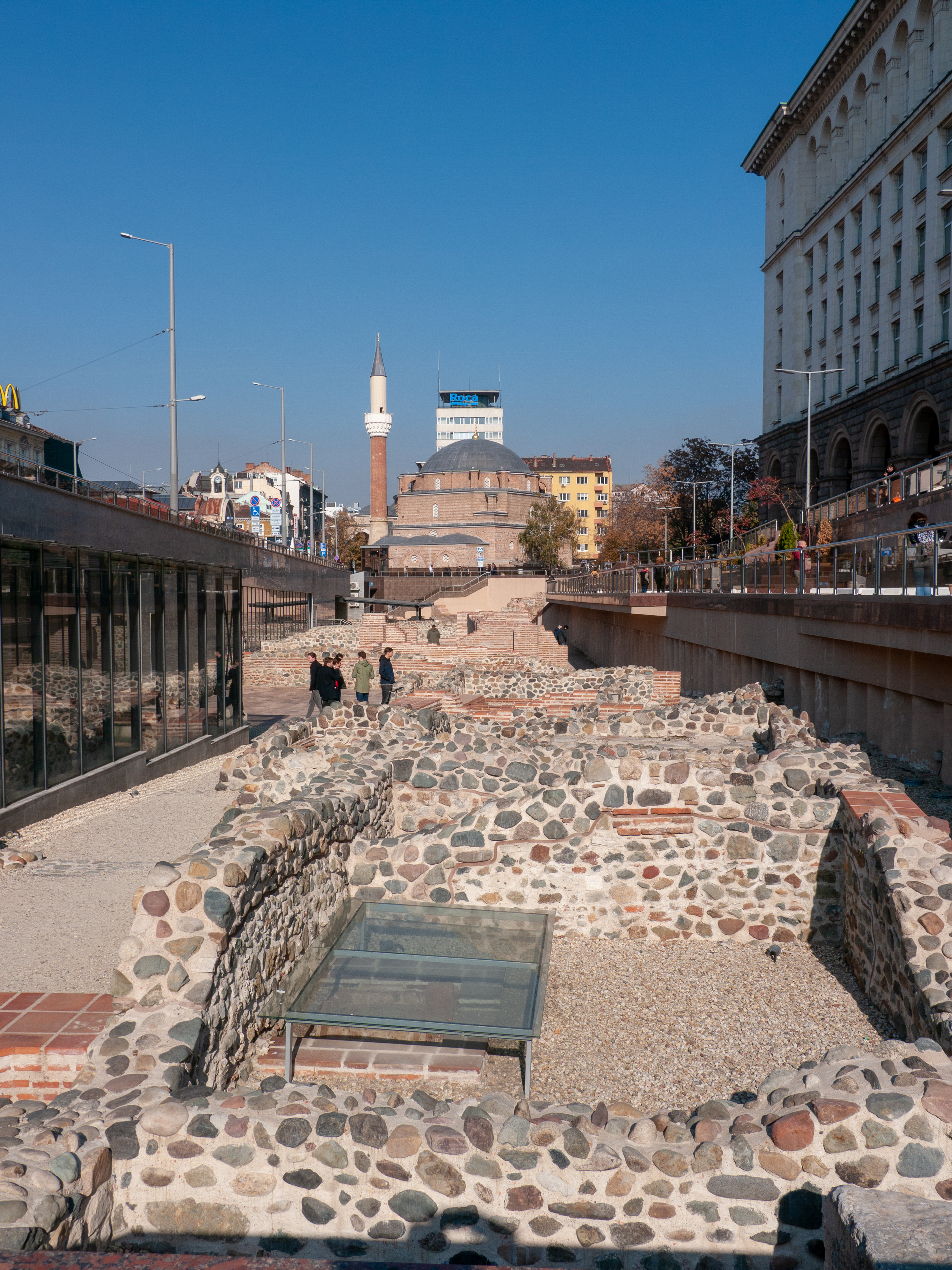 Archaeological Complex Serdica, Sofia, Bulgaria